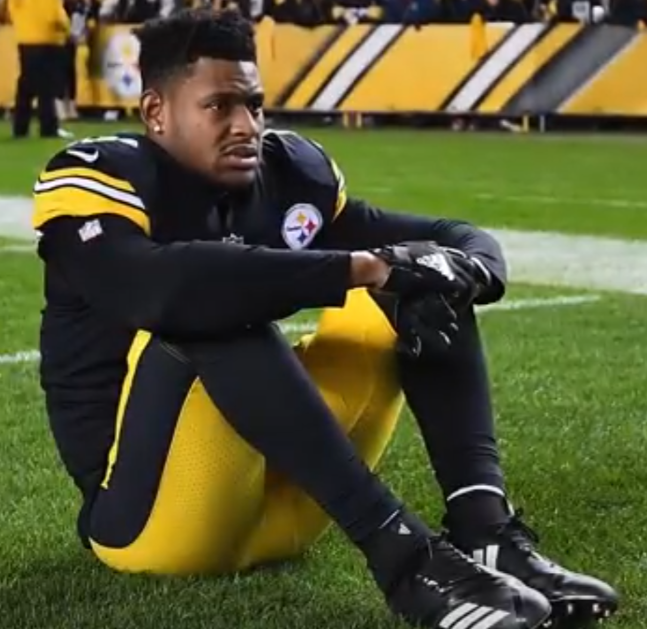 Juju Smith Schuster in 2018